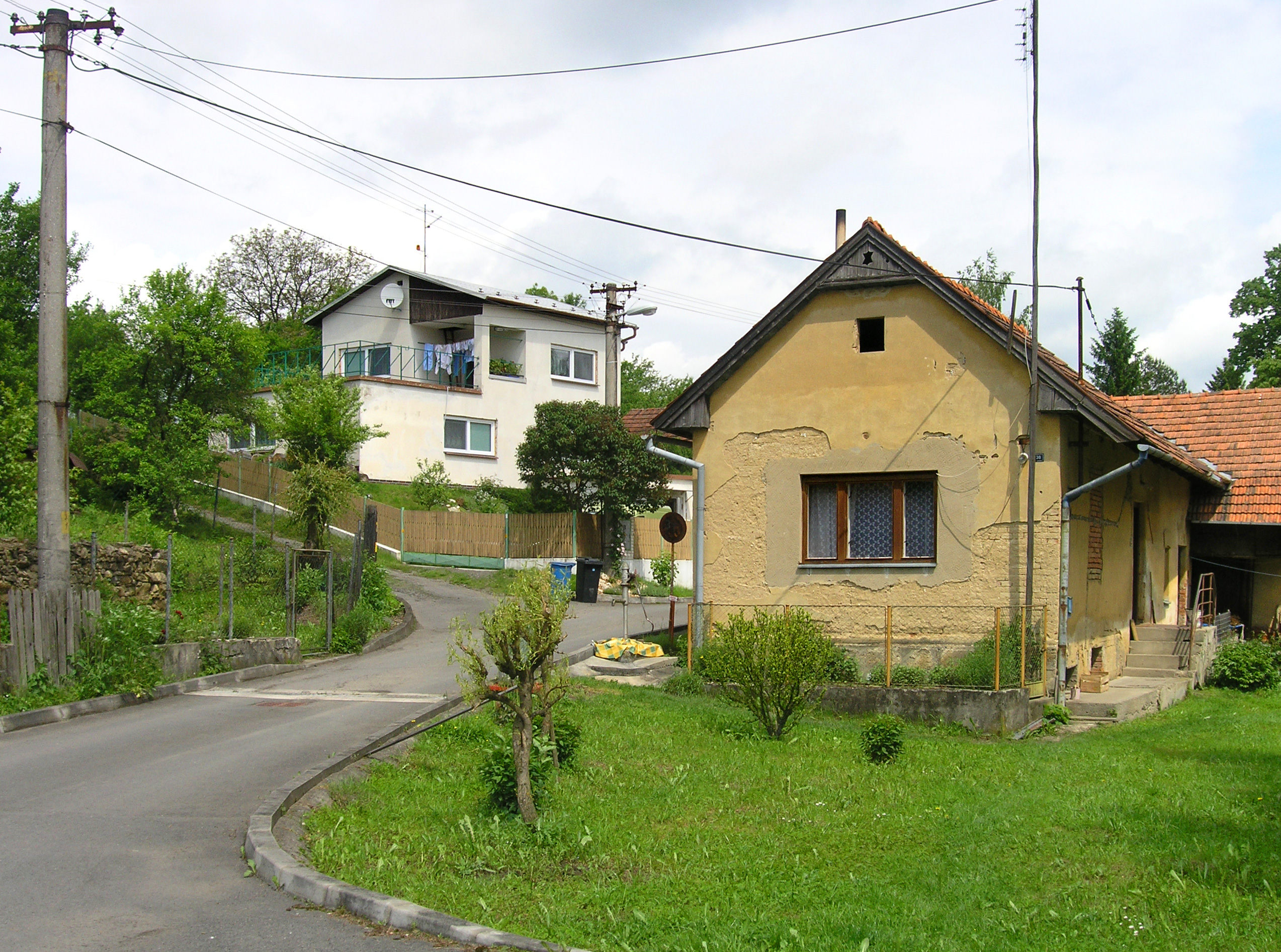 Raková, part of Zádveřice-Raková village, Czech Republic